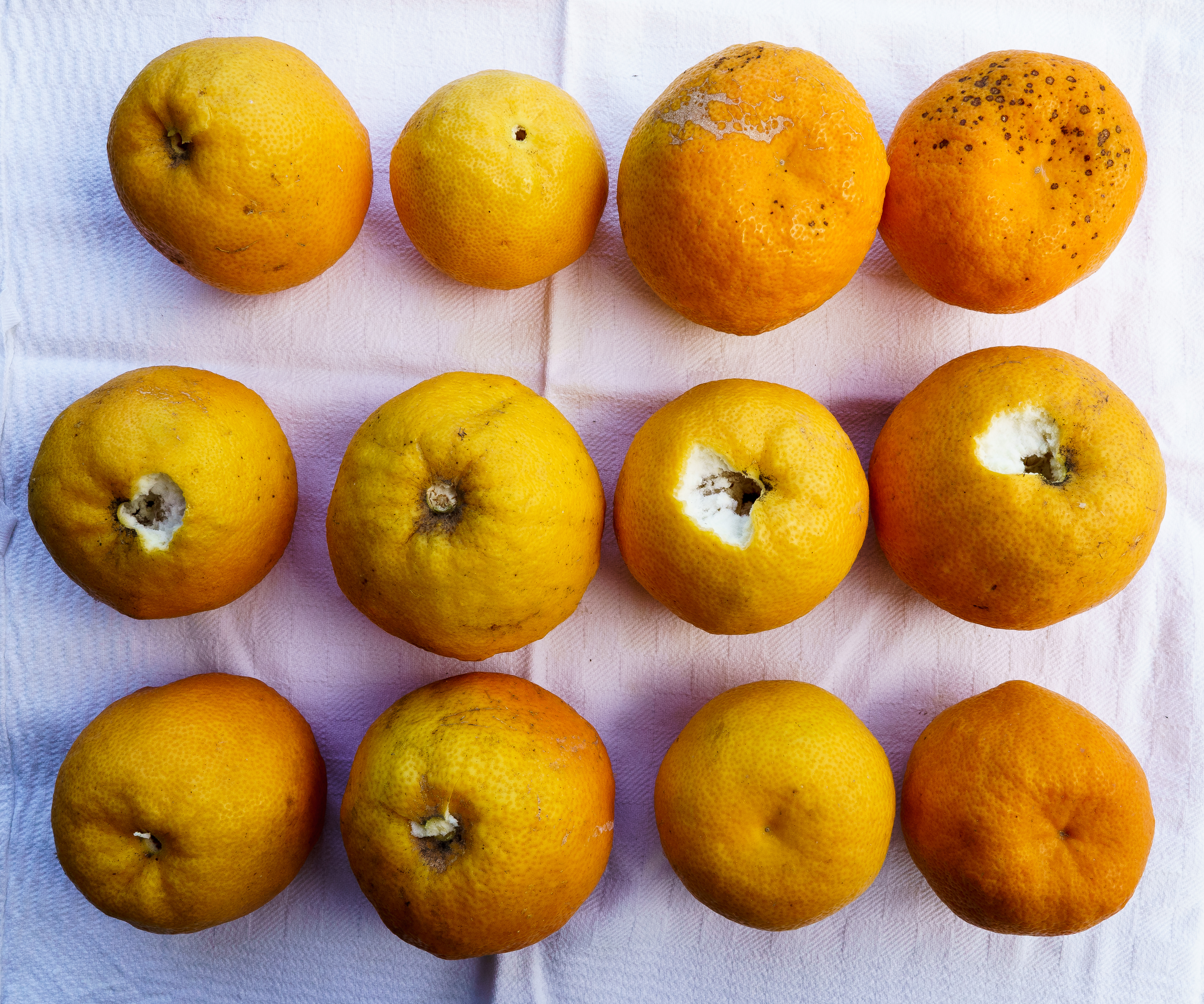 Ripe Bitter oranges (Citrus × aurantium) from Asprovalta